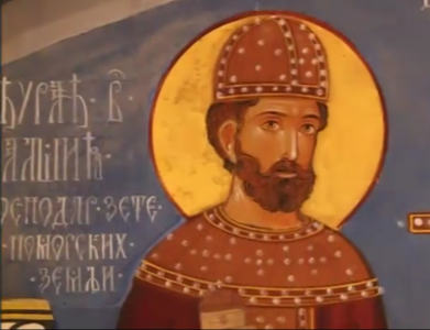 Fresco of Đurađ II Balšić from a monastery.